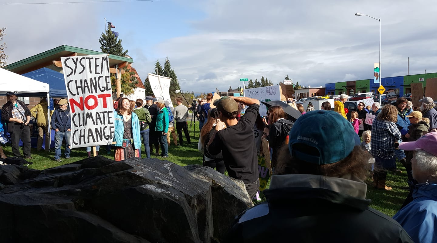 Climate Strike, Homer Alaska, September 20, 2019